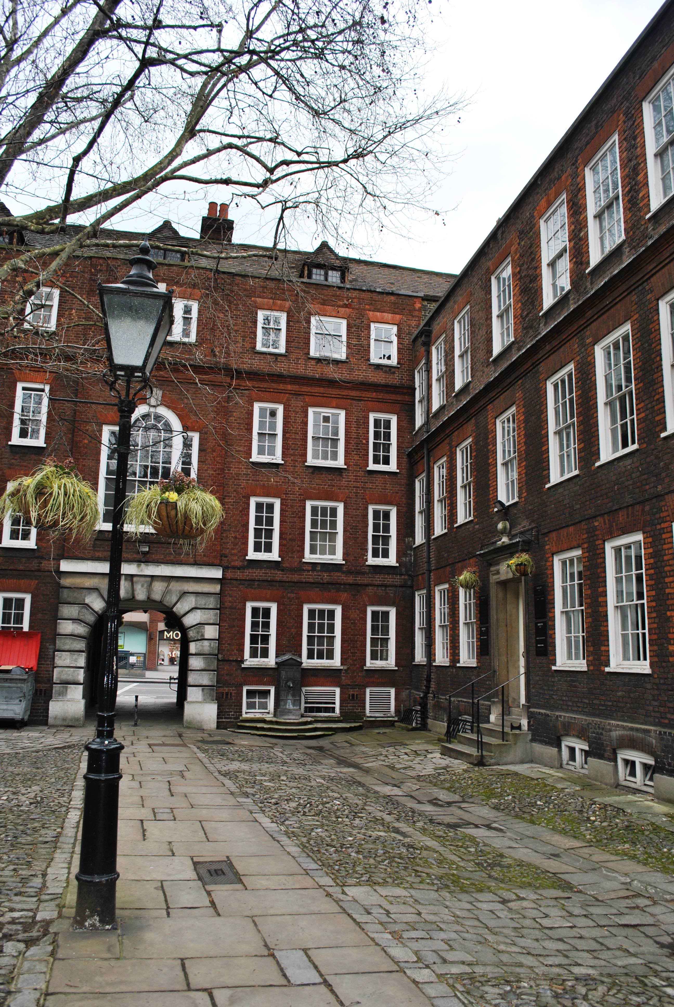 Staple Inn